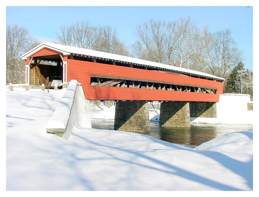 Smith Bridge - Wilmington Delaware USA